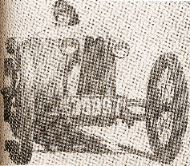 1914 Greyhound Cyclecar